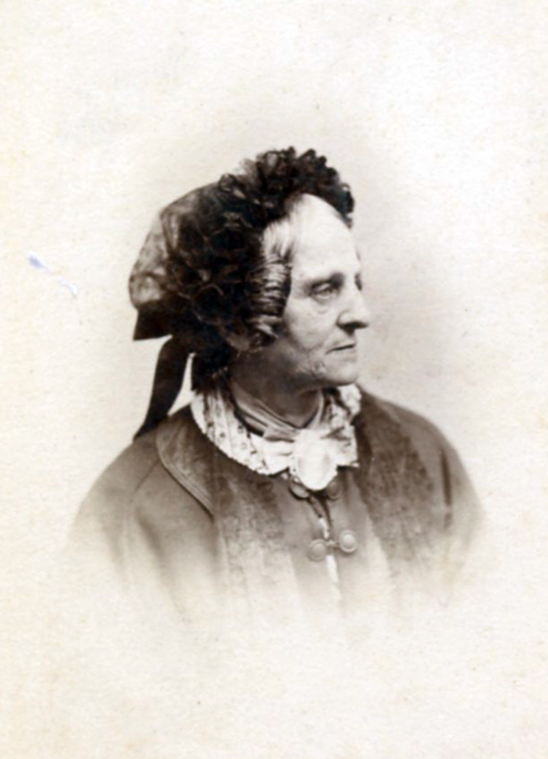 Emilie Friederike Henriette von Gleichen-Rußwurm, youngest daughter from Friedrich and Charlotte von Schiller, cutout from a CdV